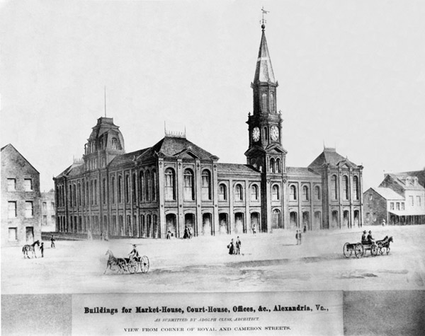 Alexandria City Hall in 1871, as submitted by the architect